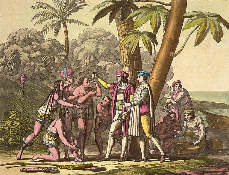 The Landing of Columbus. Christopher Columbus and others showing objects to Native American men and women on shore.